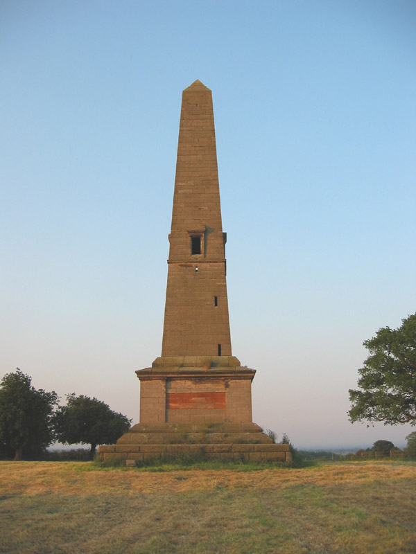 Obelisk, dated 1890, on the edge of Combermere Park, near Wrenbury. It commemorates Stapleton Cotton, 1st Viscount Combermere.